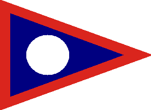 Union Army I Corps, 2nd Division Badge, 3d Brigade